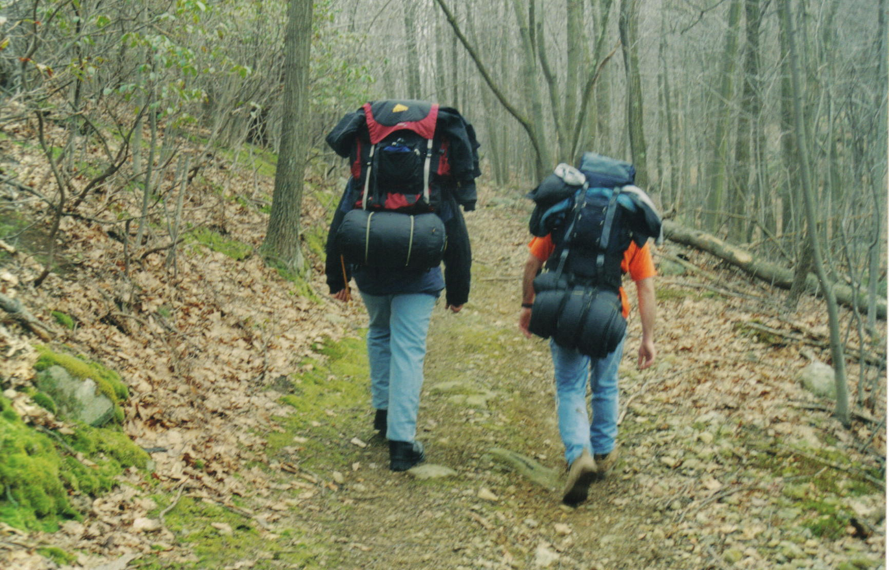 Two campers with gear hiking through Bear Mountain State Park.